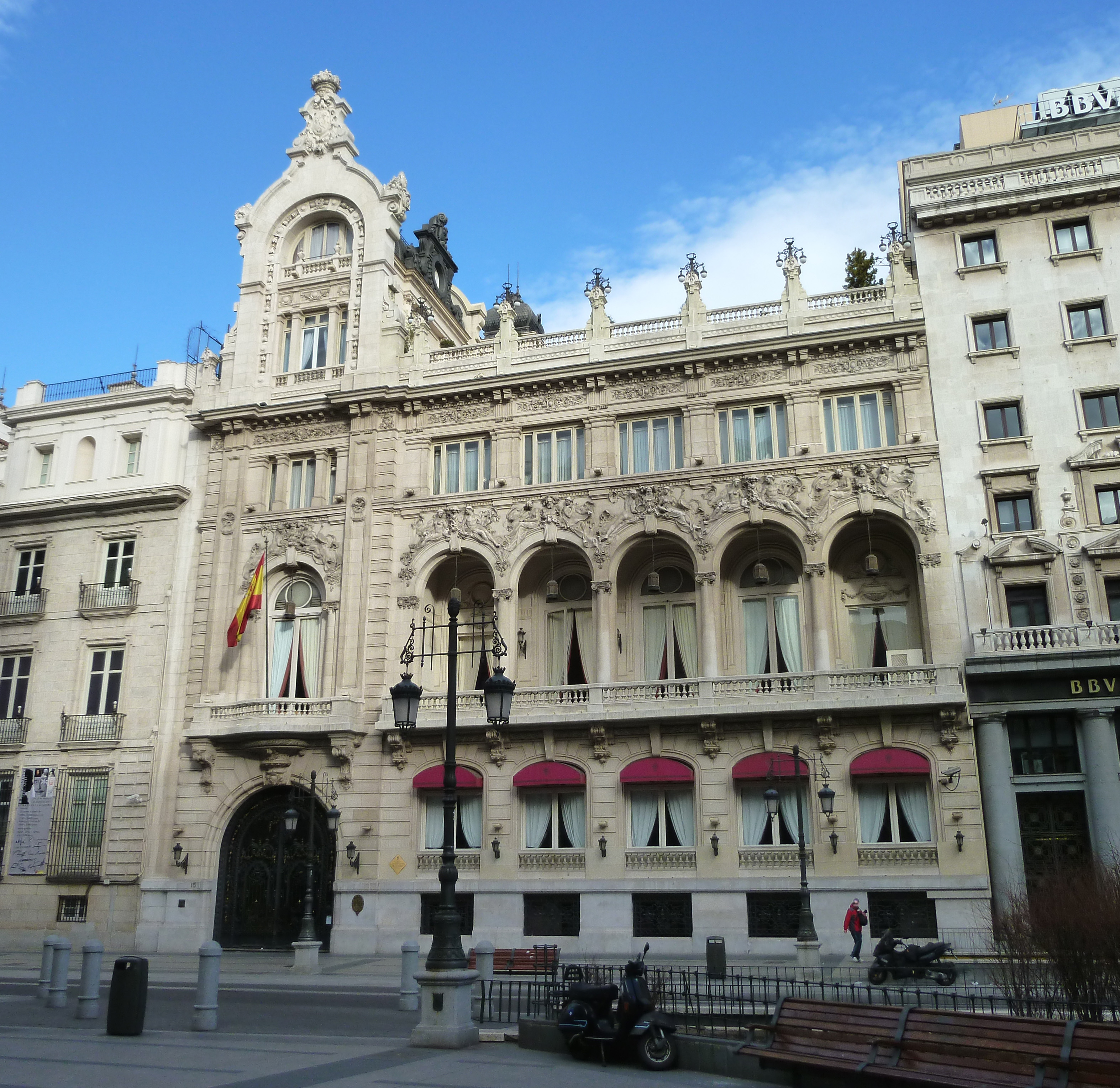 Façade of Casino de Madrid (Spain).